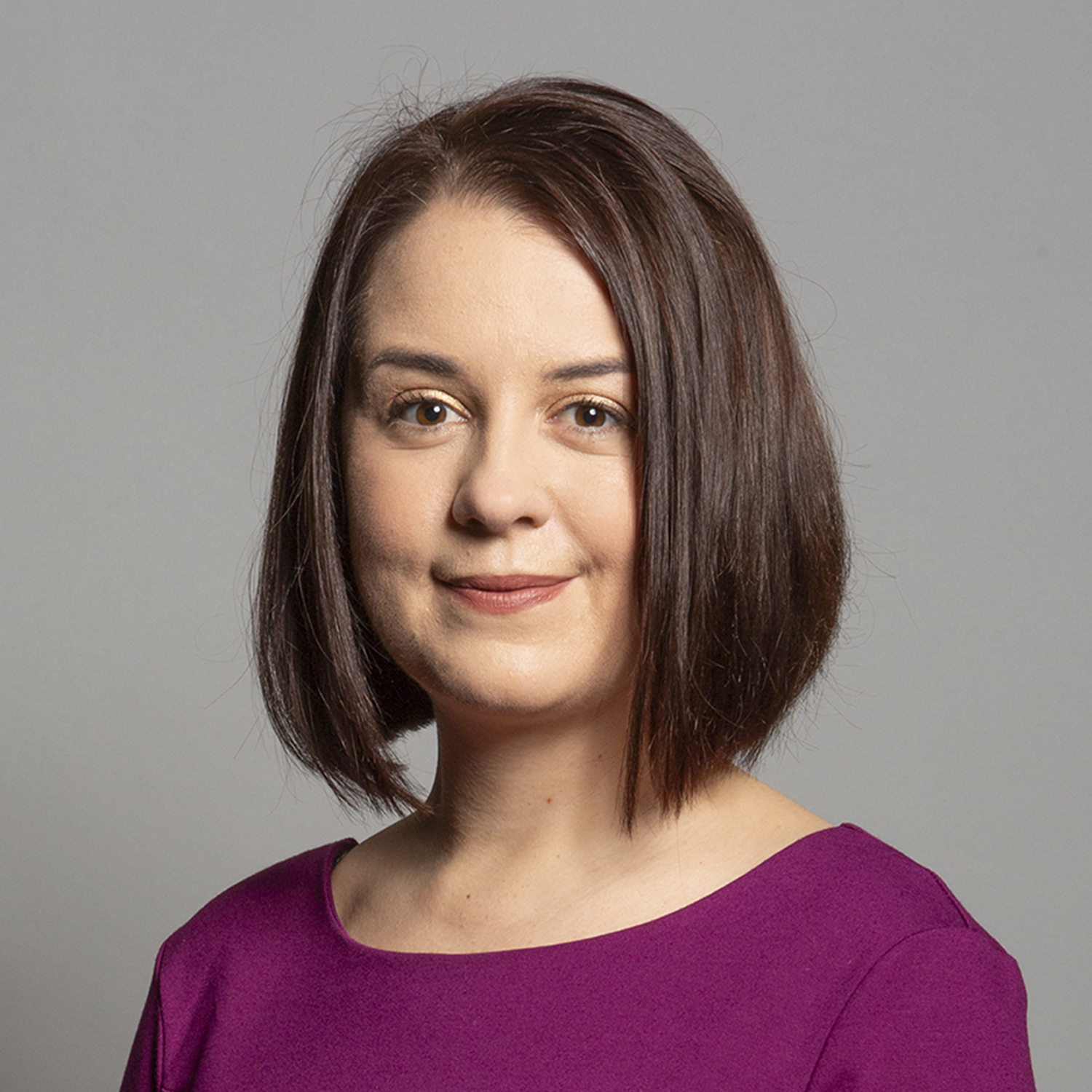 Official portrait of Stephanie Peacock MP 1×1 portrait of Stephanie Peacock